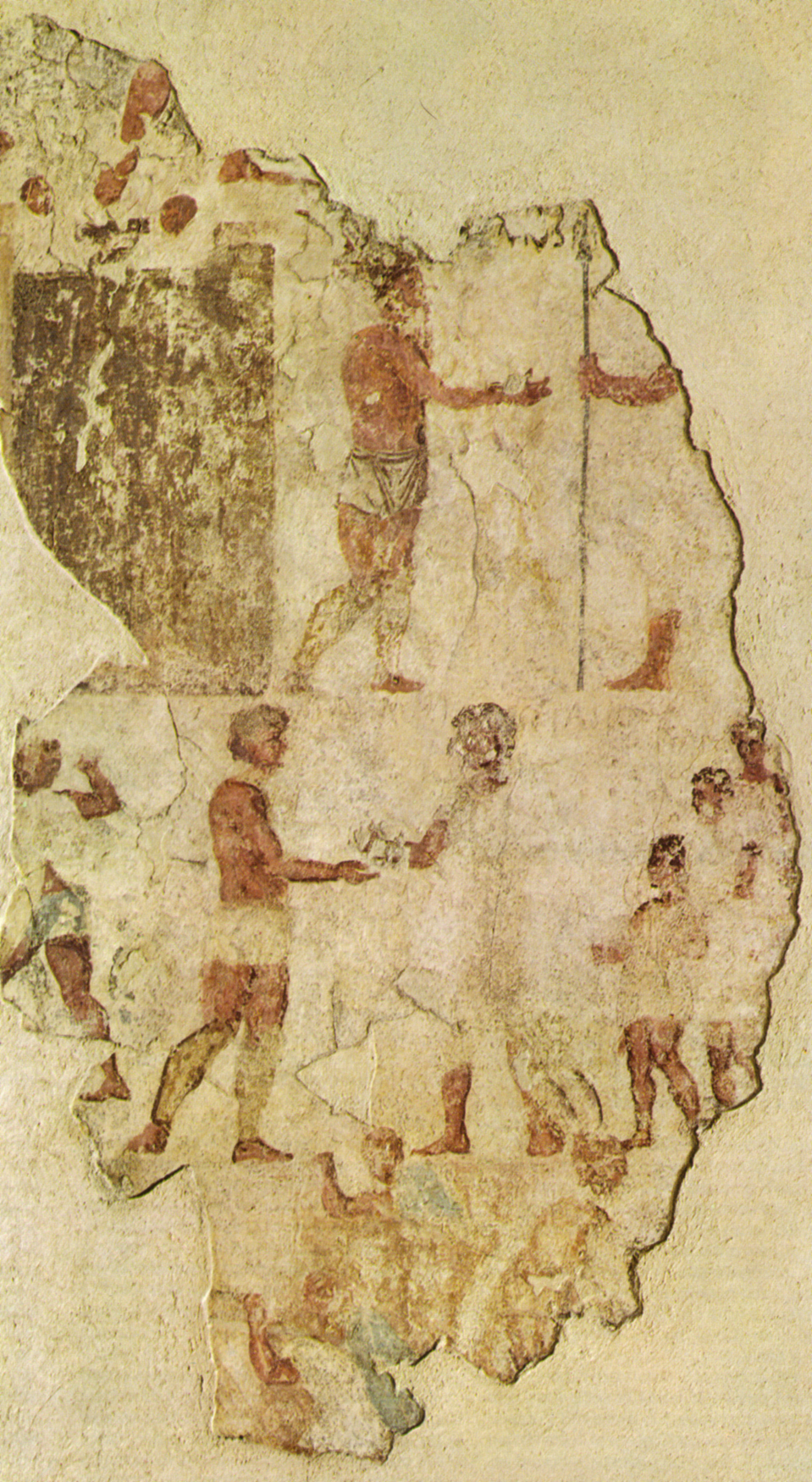 Ancient roman fresco from the Necropolis of Esquilino, dated c. 300-280 BC. Maybe representing scenes from the second samnitic war.